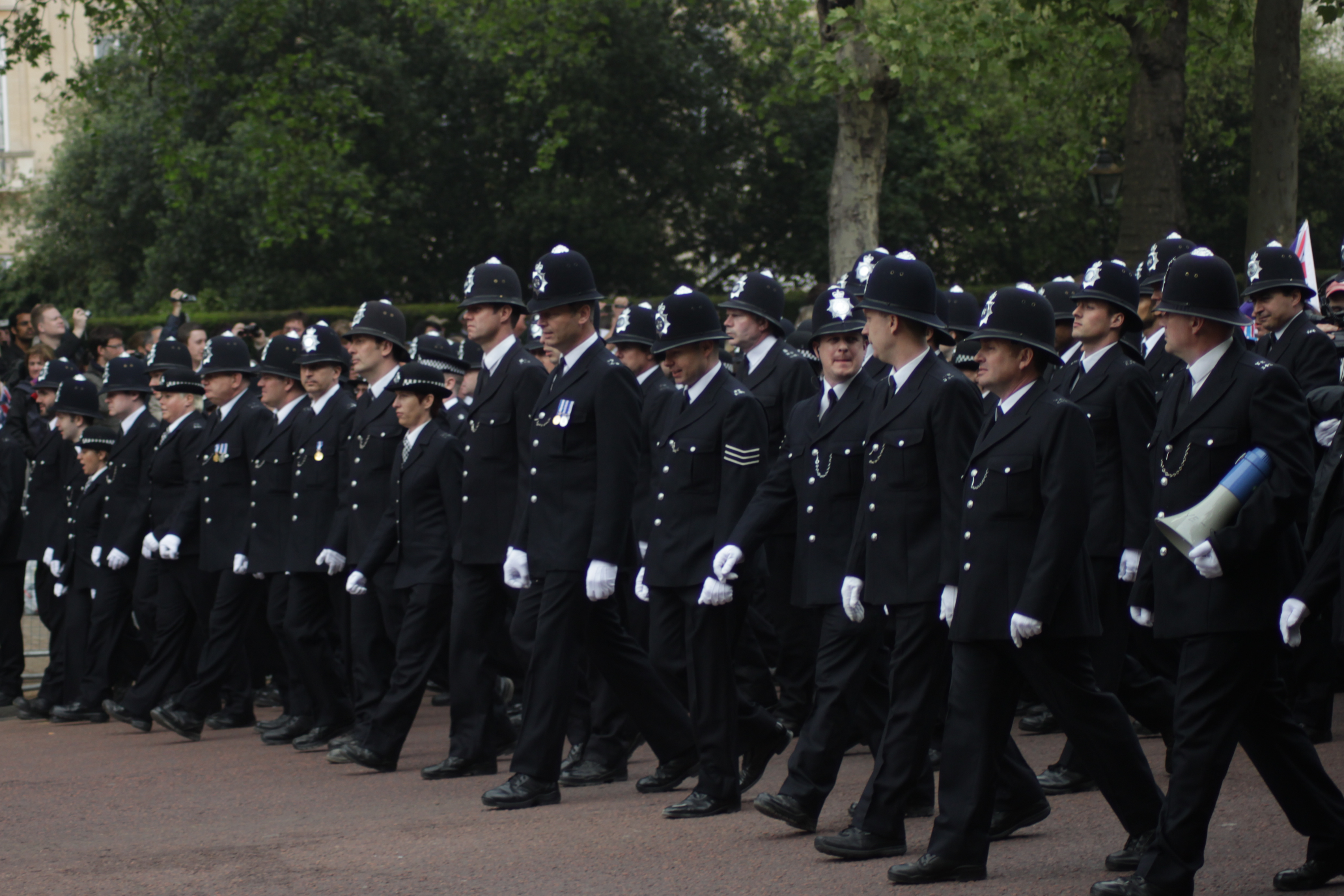 Wedding of Prince William of Wales and Kate Middleton